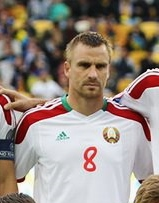 Sergei Kornilenko